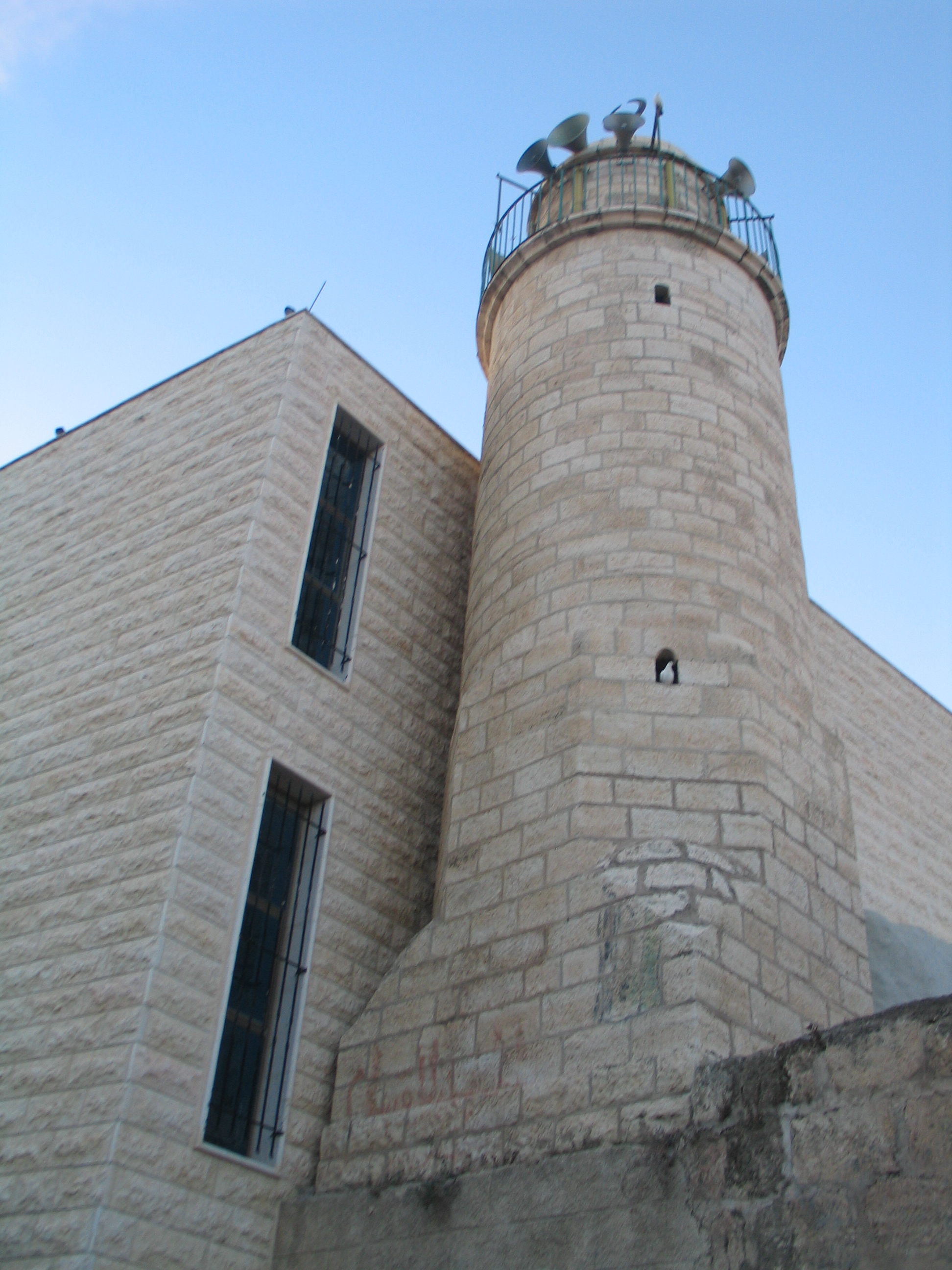 As-Samu, mosque.